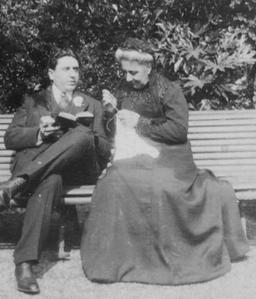 Léonce Perret's photo.